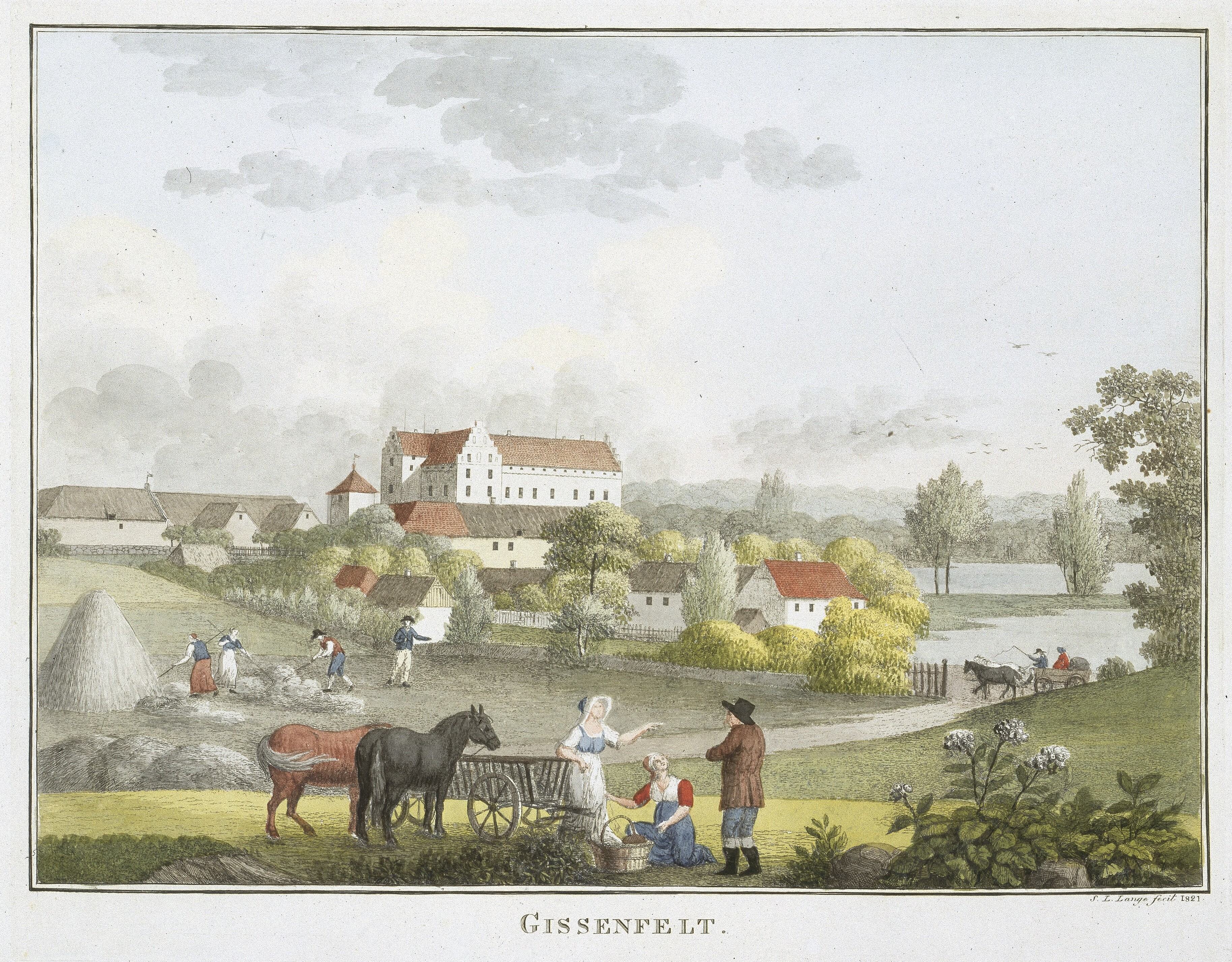 Gisselfeld at Haslev, Denmark